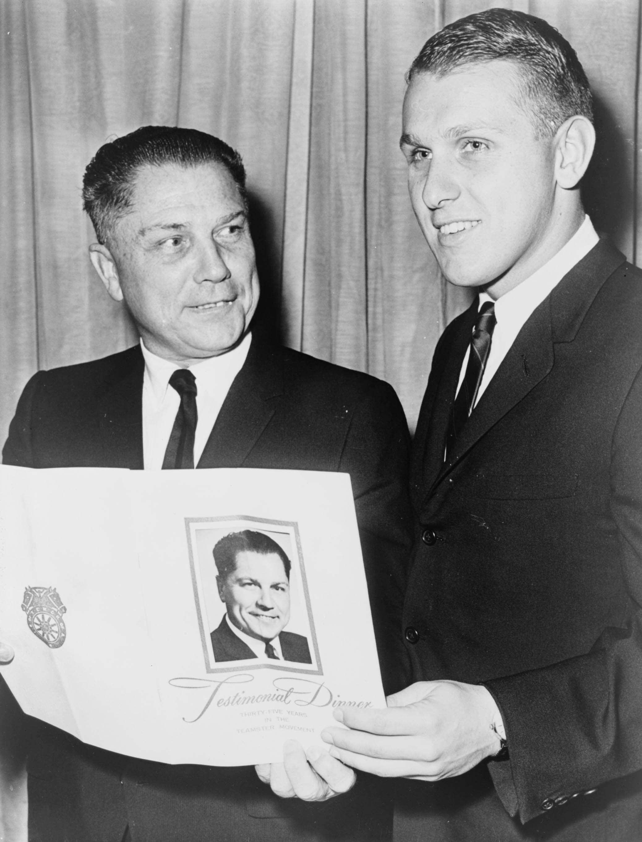 James P. Hoffa, half-length portrait, with his father James R. Hoffa at testimonial dinner / World Telegram & Sun photo by John Bottega.